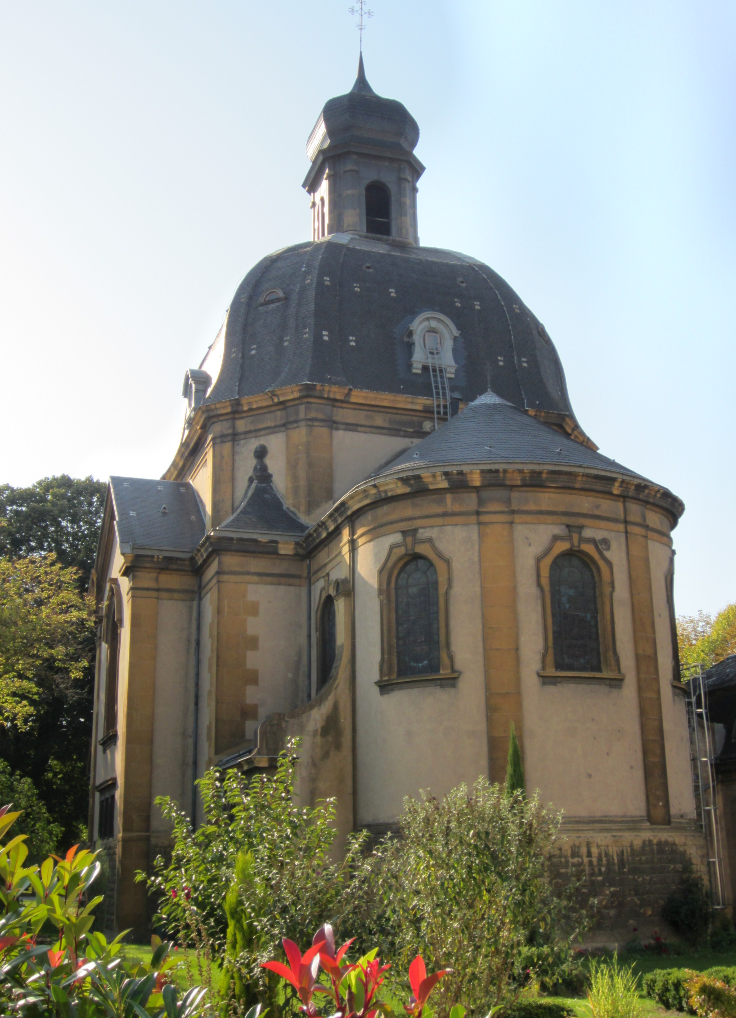 Description chapelle grand seminaire Metz Date23 November 2011Sourcemon appareil photoAuthorAimelaimePermission (Reusing this file) chapelle grand seminaire Metz